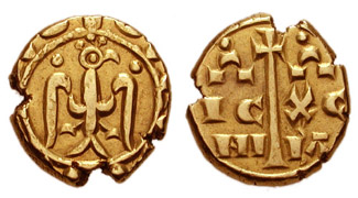 Italy, Kingdom of Sicily: Frederick II, Holy Roman Emperor. 1220-1250. AV Tari (10mm, 1.83 gm). Brindisi(?) mint. Struck circa 1231-1250 Pseudo-Kufic legend around crowned eagle, head right; pellet above each wing IC/XC NI/KA in two lines across field flanking central cross; pellet above Ω on either side above. Spahr 95; MEC 14, 532. VF.